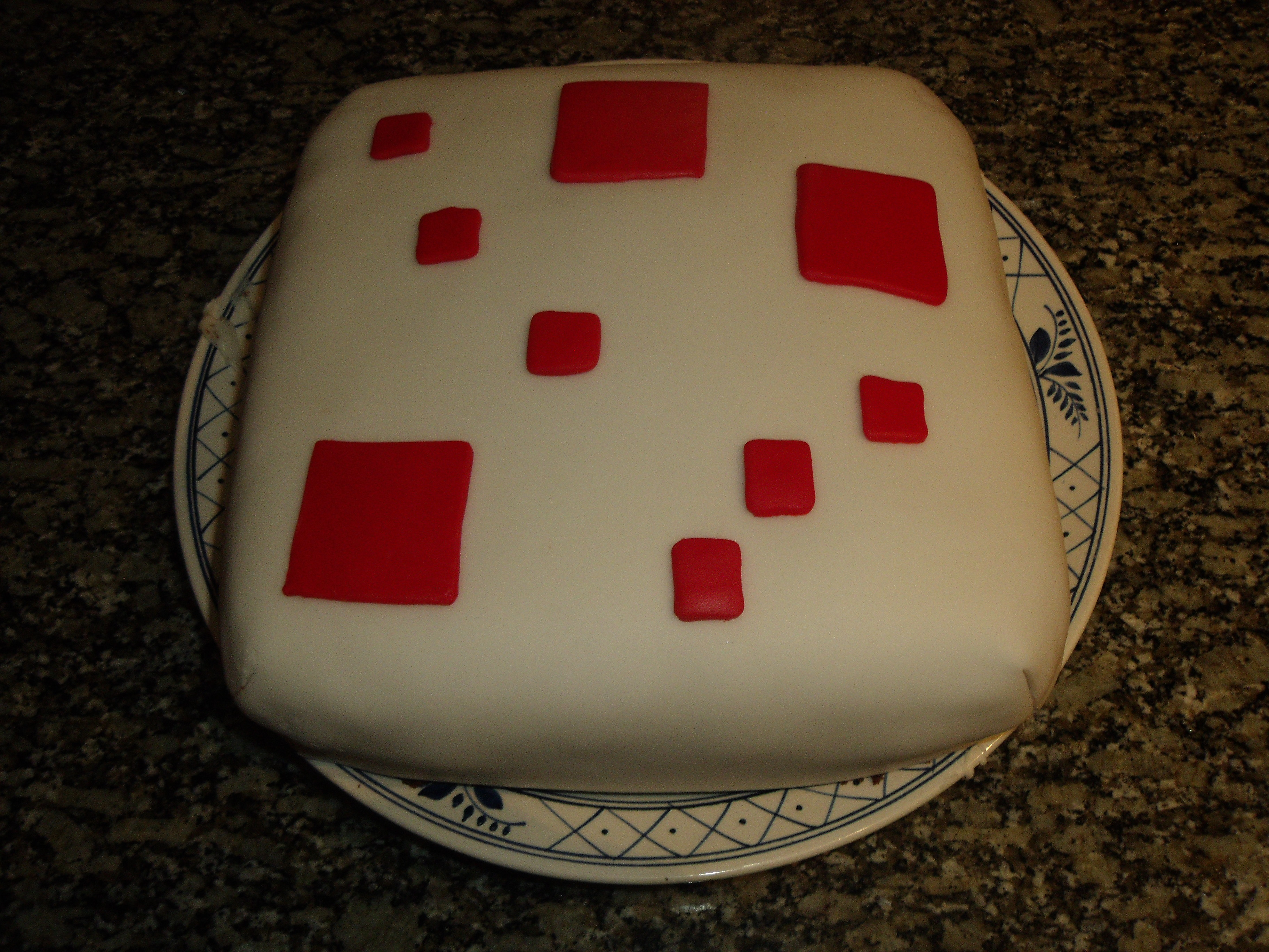 Making the Minecraft cake cake